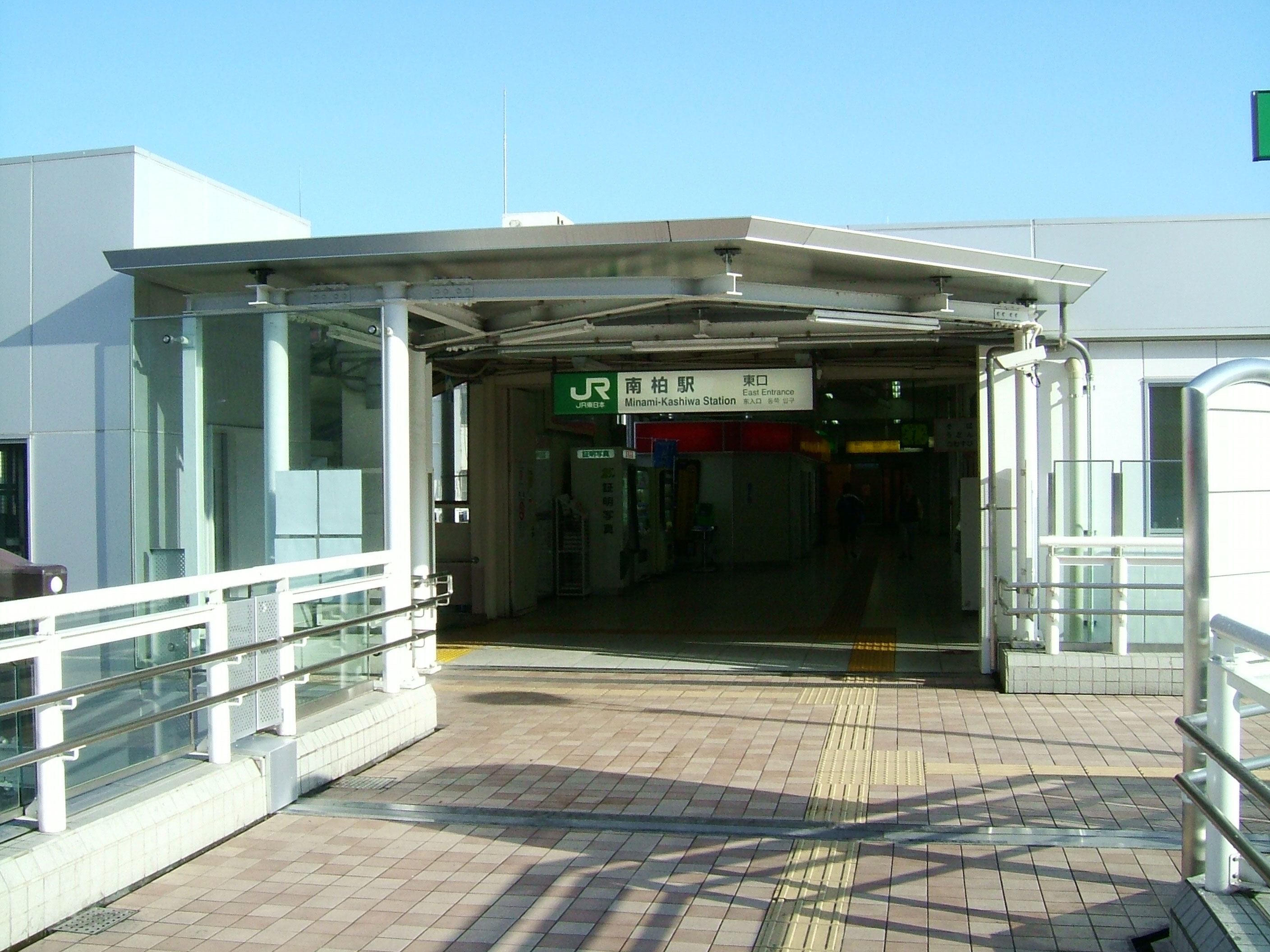 Minami-Kashiwa Station east entrance (East Japan Railway Jōban Line)